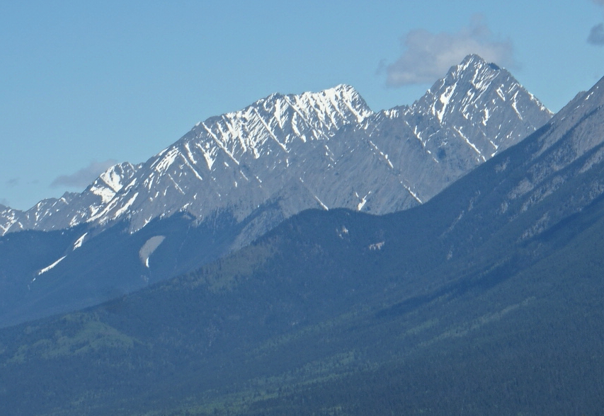 Mount Selkirk seen from Kootenay Valley